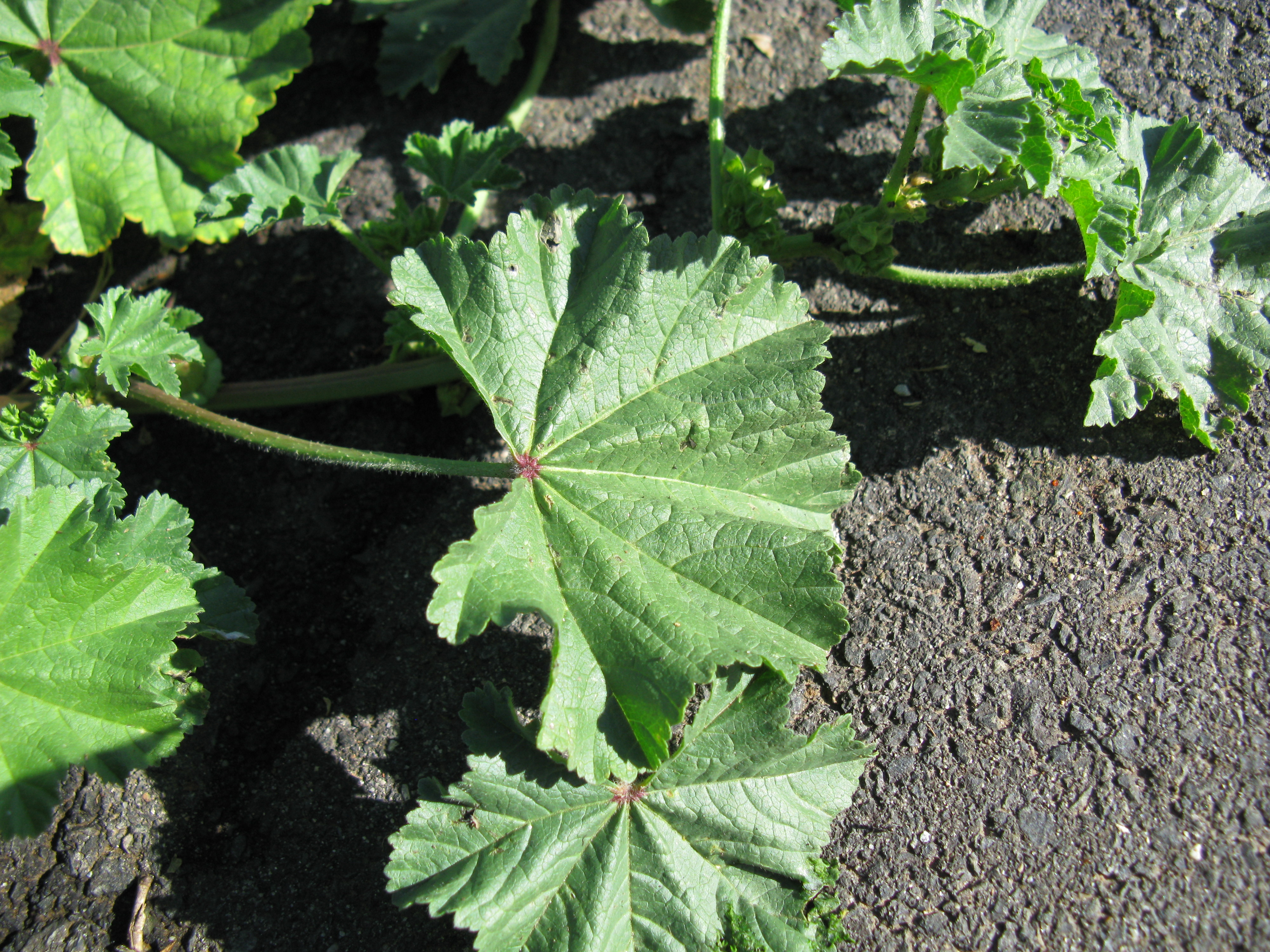 Introduced, cool-season, annual, erect or sprawling herb, which is mucilaginous when crushed. Stems are to 60 cm long, and have simple and star shaped hairs. Leaves are dark green, almost circular, 8-10 cm wide, with 5-7 scalloped lobes. Flowers are 1-1.5 cm wide and clustered in the leaf axils; they have 5, white to pale pink petals that are barely as long as the sepals. Flowering is over most of the year. A native of the Mediterranean, it is found throughout southern Australia. Mostly on disturbed ground where there is little competition, especially where there has been compaction and trampling (e.g. gateways, stockyards and run-down pastures). Fruit are spread by machinery and animals. Not palatable to stock, it is suspected of causing “staggers” in lambs. Control by: maintaining dense competitive pastures; reducing compaction or trampling; or the use of registered herbicides.